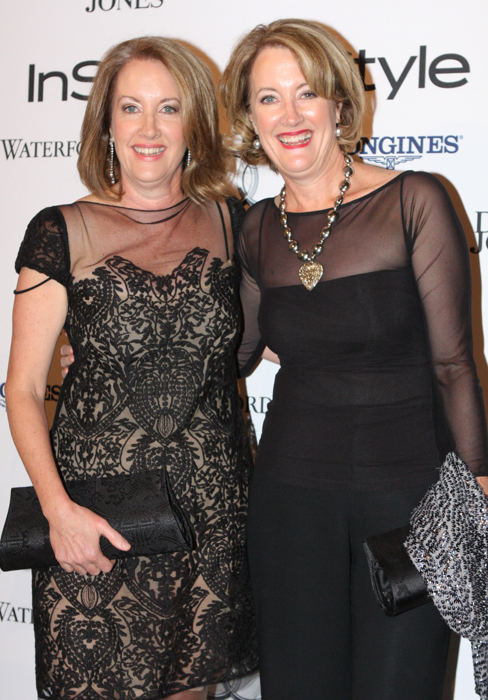 On the left: Charity & Community Award winner Elizabeth Broderick [1] (In Style And Audi 5th Woman Of Style Awards, May 2013)